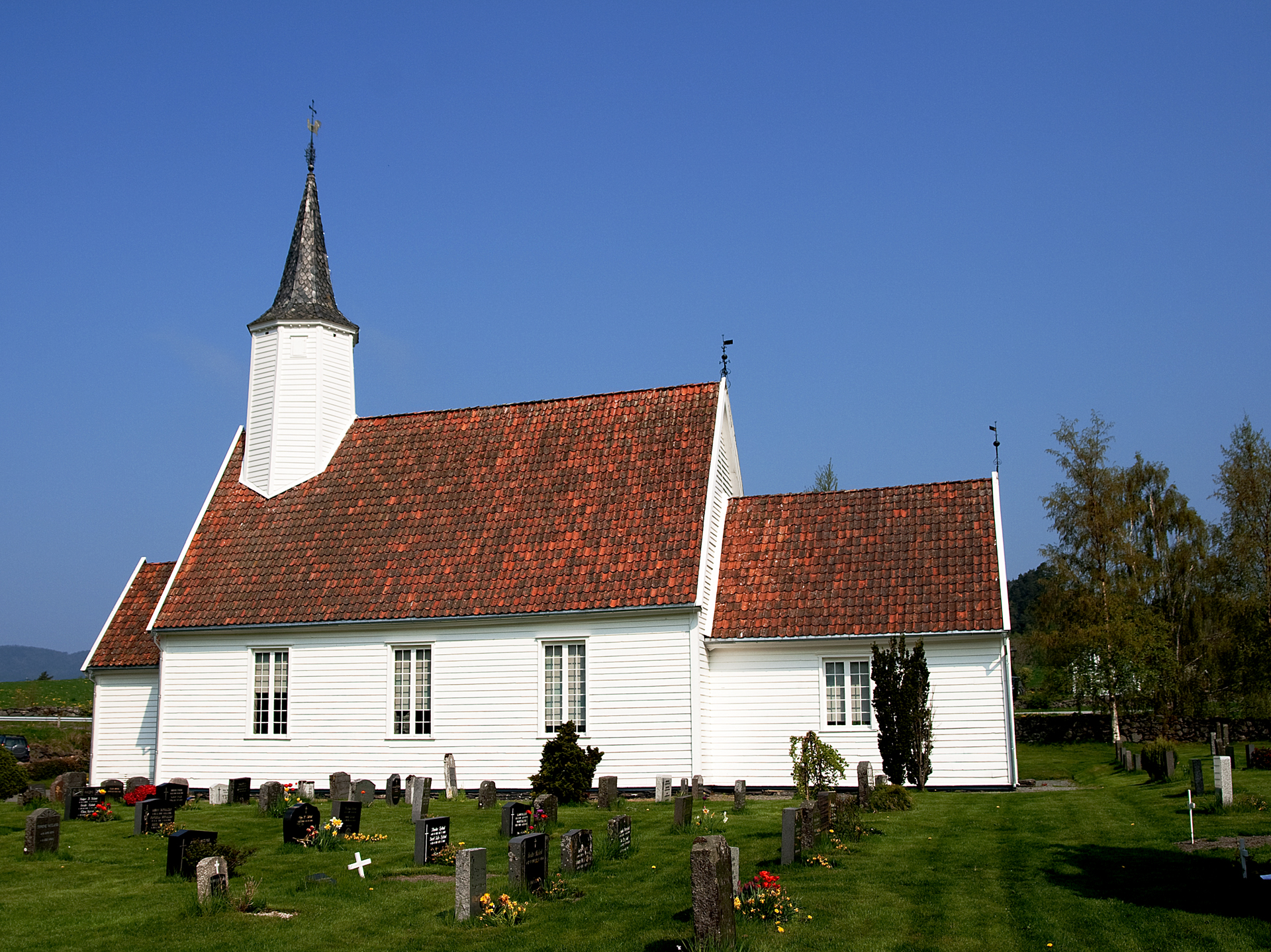 Picture of Jelsa church in Suldal, Norway. Renovated 1955 by Valdemar Scheel Hansteen (1897–1980)